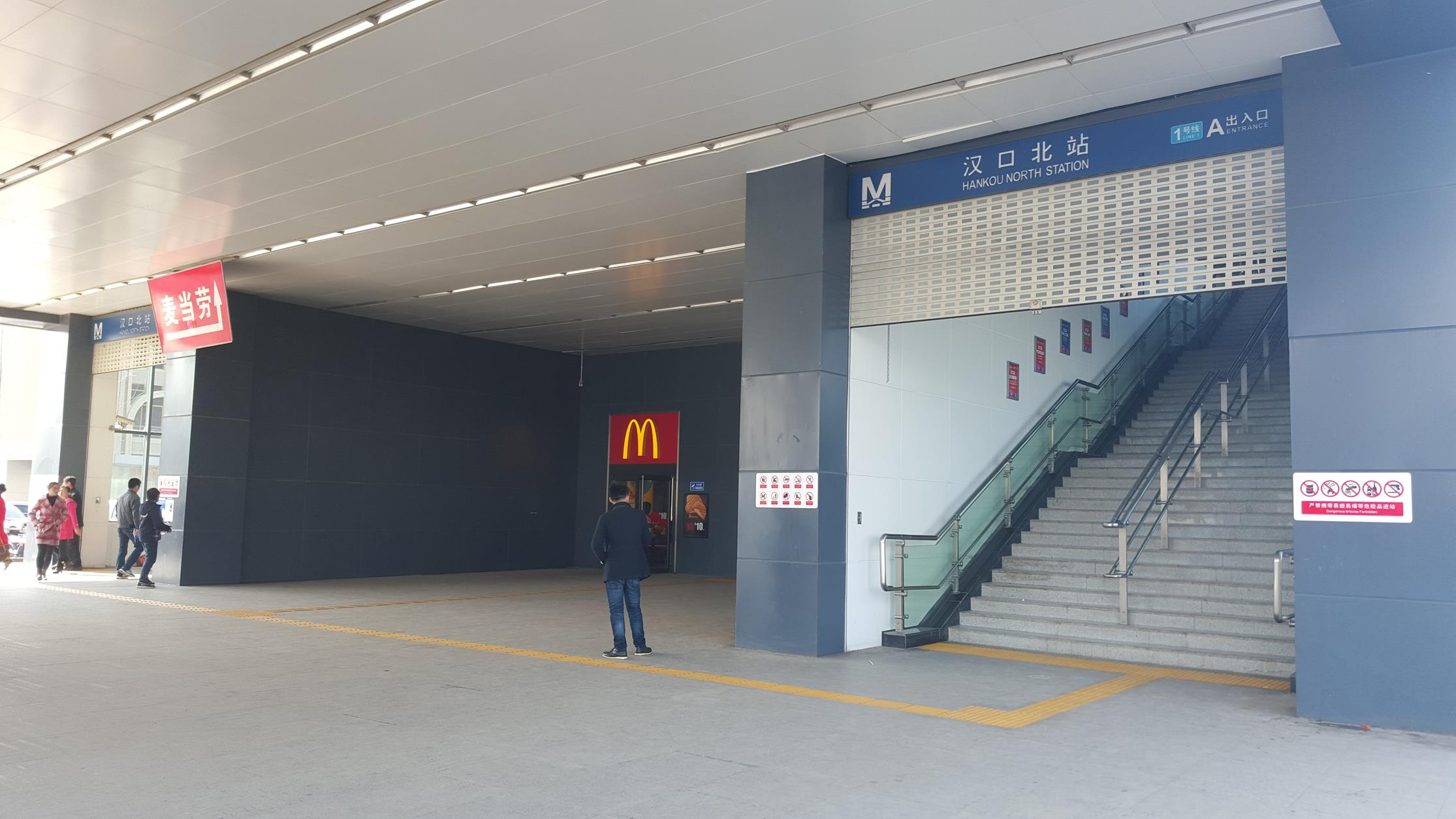 Entrance A of Hankou North Station, Wuhan Metro